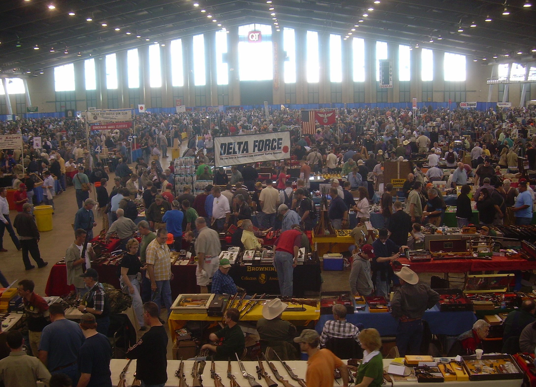 Wanenmacher Gun Show, Tulsa, Oklahoma. The largest gun show in the world.